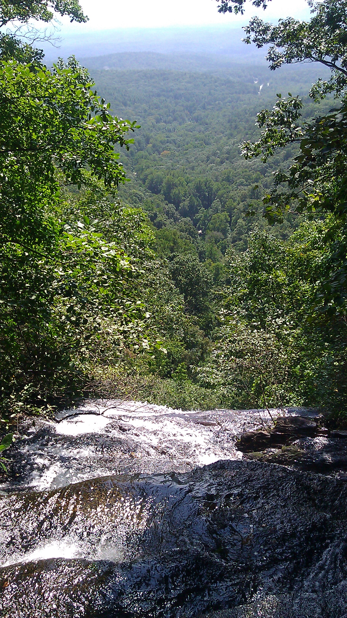 Amicalola Falls (Main) - near Dawsonville, Georgia-USA